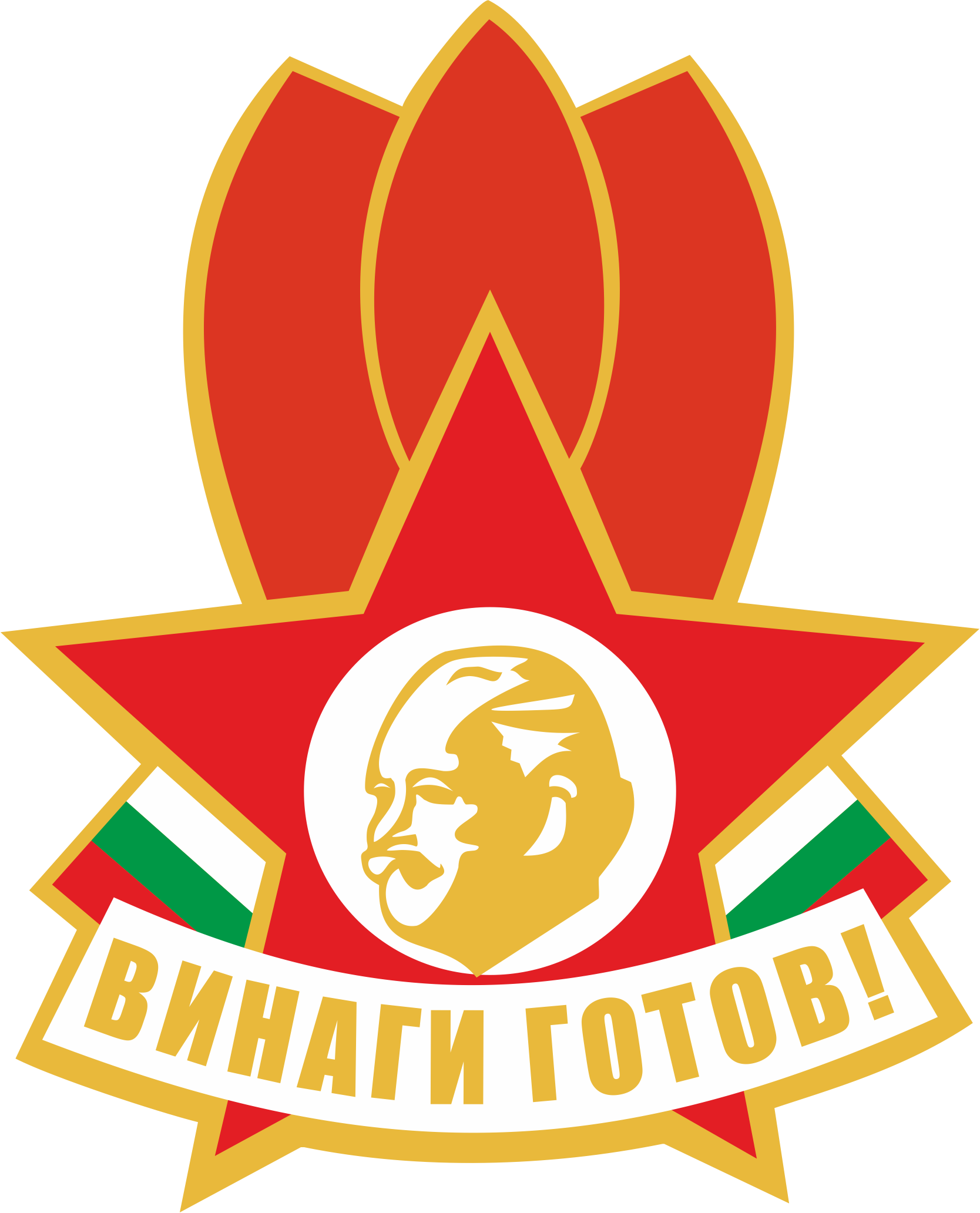 Dimitrovist Pioneer Organization "Septemberists" (Bulgarian: Димитровска пионерска организация "Септемврийче") was a pioneer movement in Bulgaria.